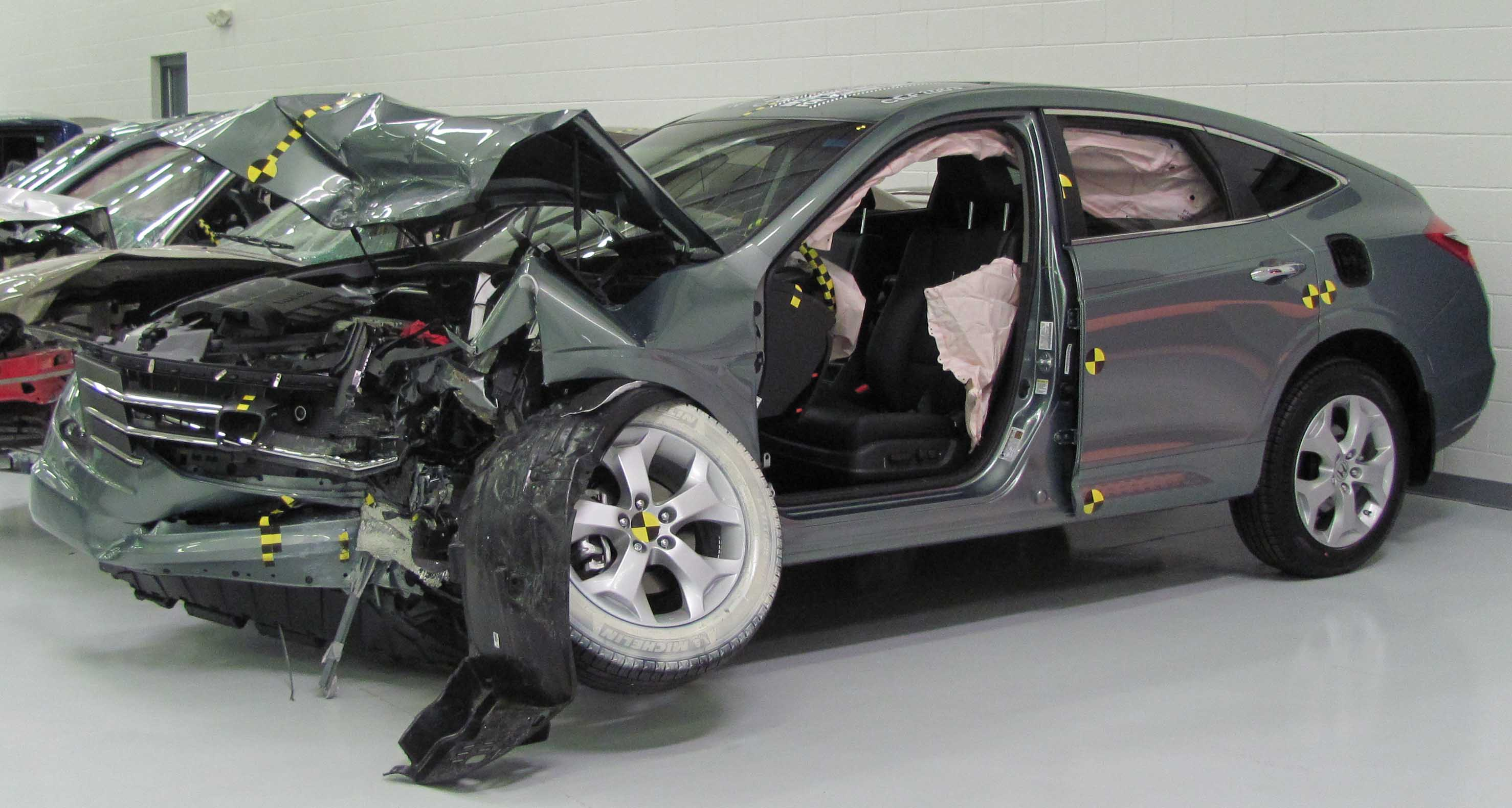 Crash-tested 2010 Honda Accord Crosstour photographed at the Insurance Institute for Highway Safety Vehicle Research Center. IIHS crash test page